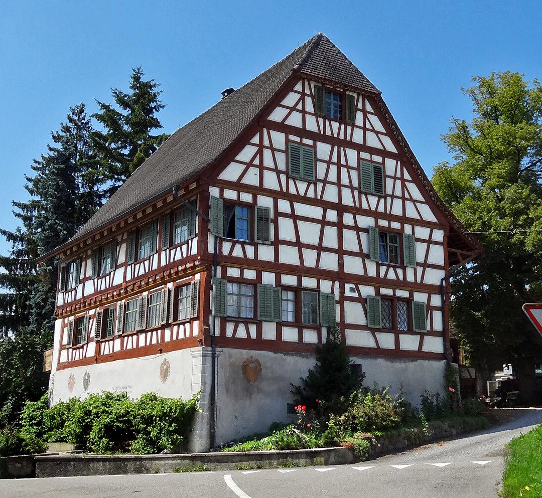 Hohes Haus in Märstetten, Switzerland.